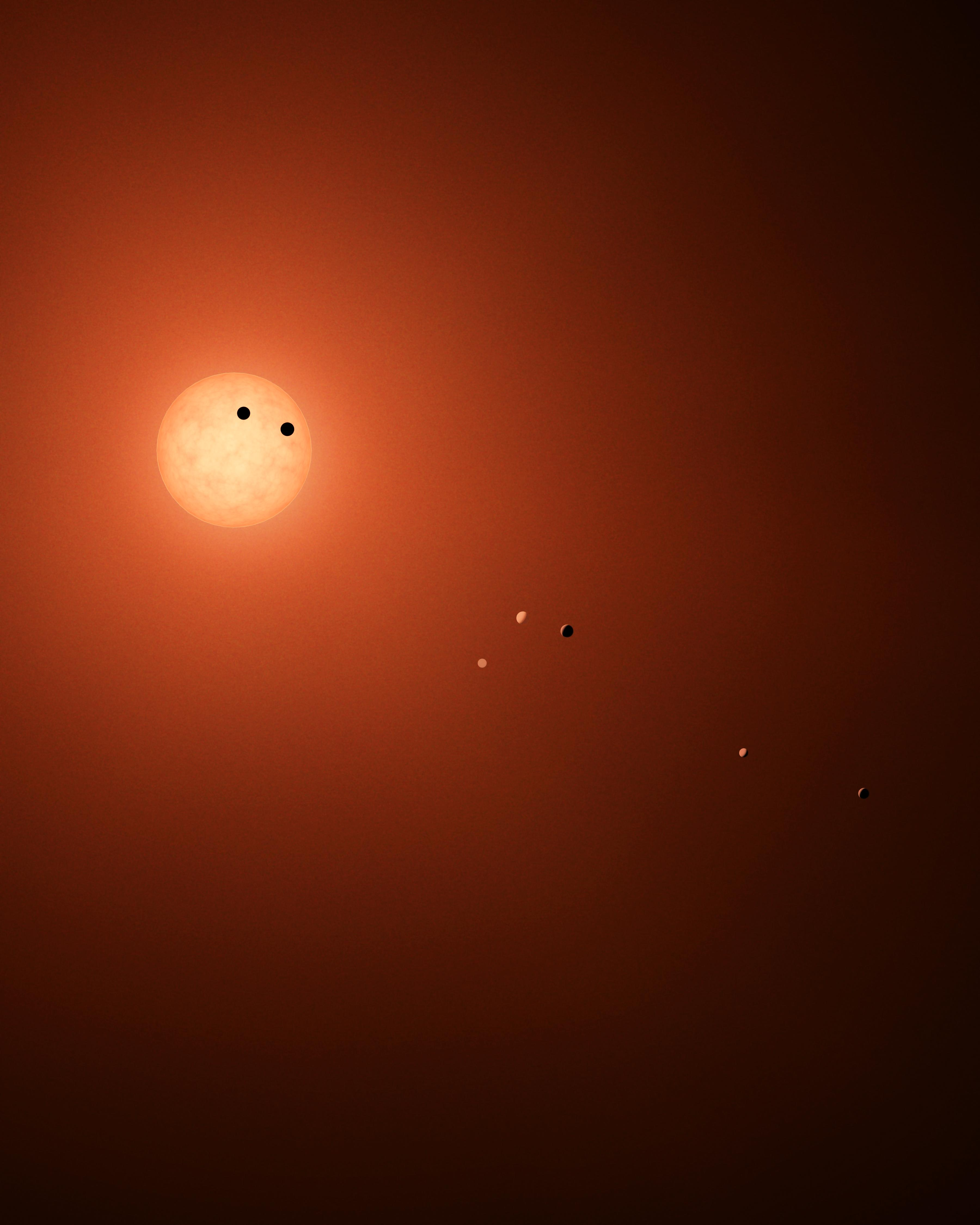 This illustration shows the seven TRAPPIST-1 planets as they might look as viewed from Earth using a fictional, incredibly powerful telescope. The sizes and relative positions are correctly to scale: This is such a tiny planetary system that its sun, TRAPPIST-1, is not much bigger than our planet Jupiter, and all the planets are very close to the size of Earth. Their orbits all fall well within what, in our solar system, would be the orbital distance of our innermost planet, Mercury. With such small orbits, the TRAPPIST-1 planets complete a "year" in a matter of a few Earth days: 1.5 for the innermost planet, TRAPPIST-1b, and 20 for the outermost, TRAPPIST-1h. This particular arrangement of planets with a double-transit reflect an actual configuration of the system during the 21 days of observations made by NASA's Spitzer Space Telescope in late 2016. The system has been revealed through observations from NASA's Spitzer Space Telescope and the ground-based TRAPPIST (TRAnsiting Planets and PlanetesImals Small Telescope) telescope, as well as other ground-based observatories. The system was named for the TRAPPIST telescope. NASA's Jet Propulsion Laboratory, Pasadena, California, manages the Spitzer Space Telescope mission for NASA's Science Mission Directorate, Washington. Science operations are conducted at the Spitzer Science Center at Caltech, also in Pasadena. Spacecraft operations are based at Lockheed Martin Space Systems Company, Littleton, Colorado. Data are archived at the Infrared Science Archive housed at Caltech/IPAC. Caltech manages JPL for NASA. For more information about the Spitzer mission, visit and